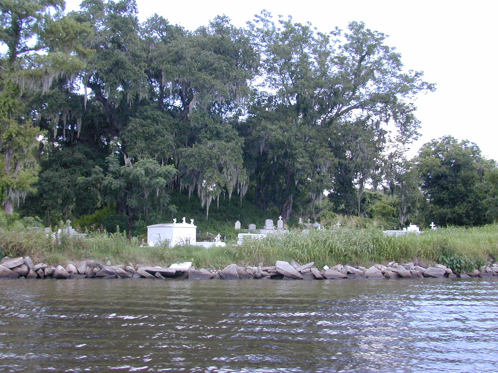 Lafitte Cemetary, Louisiana, Jean Lafitte, Louisiana Photo by Jan Kronsell, 2004